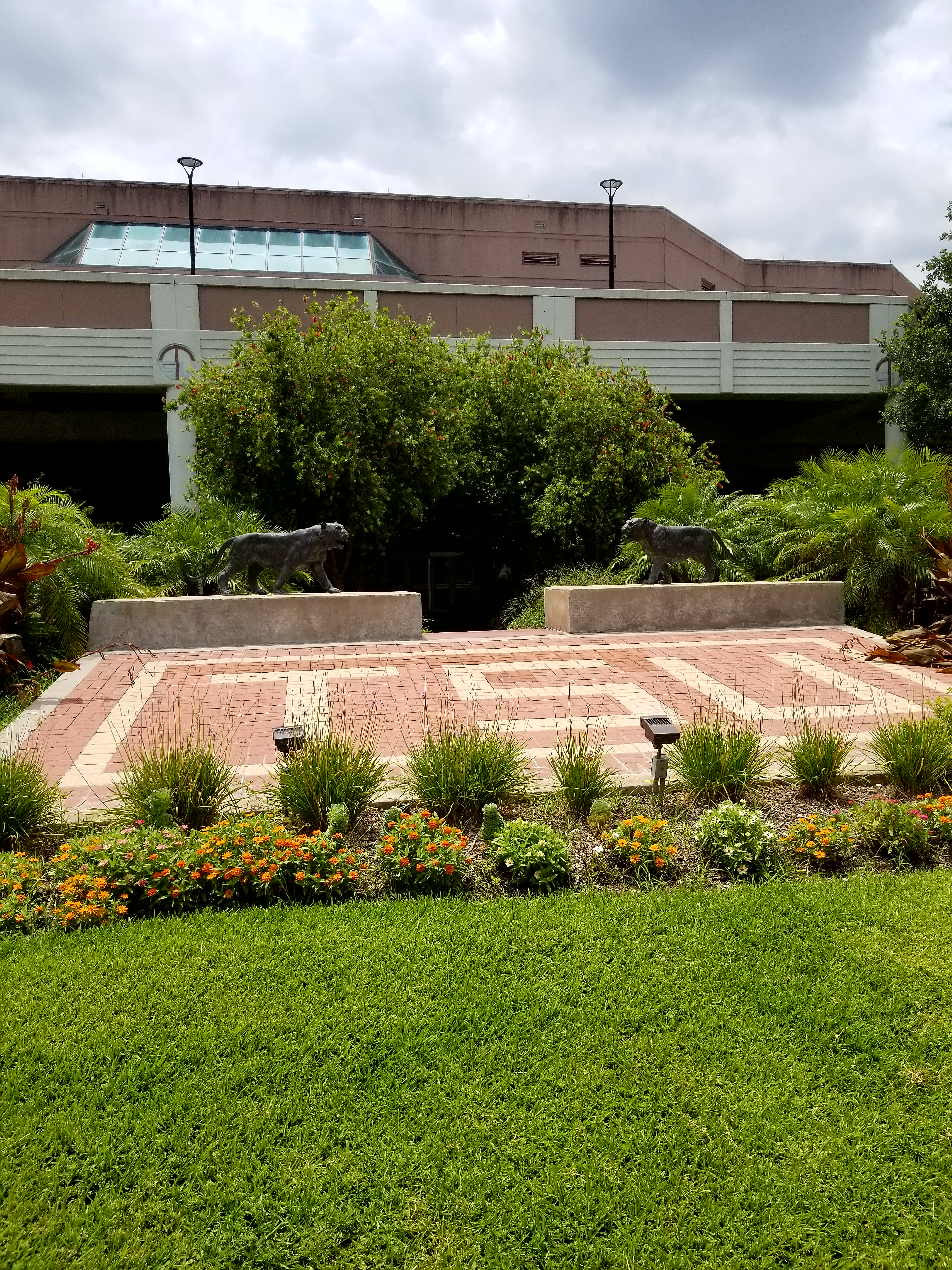 Health and Physical Education Center (HPE)